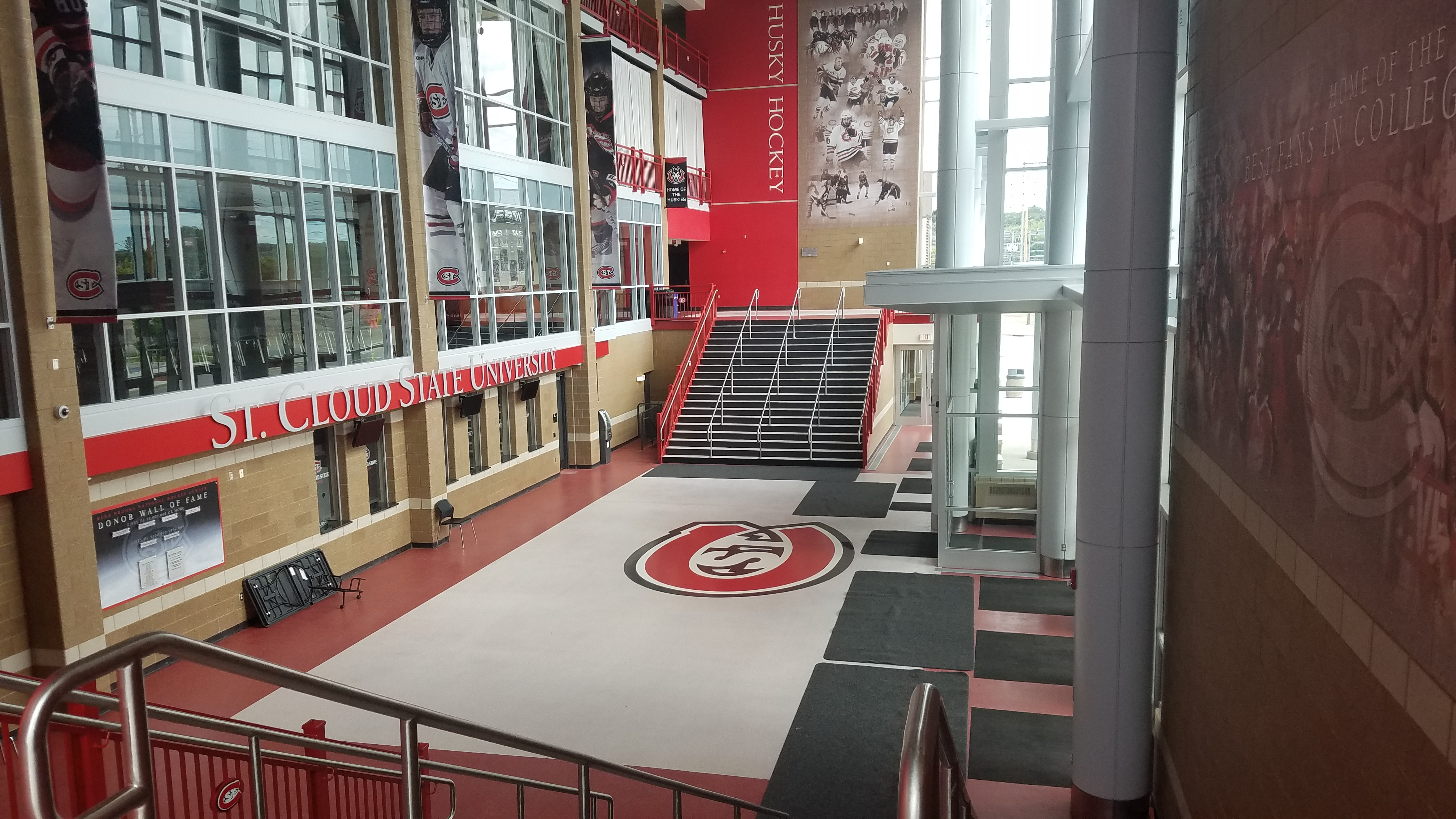 The atrium of the Herb Brooks National Hockey Center at St. Cloud State University in Central Minnesota.